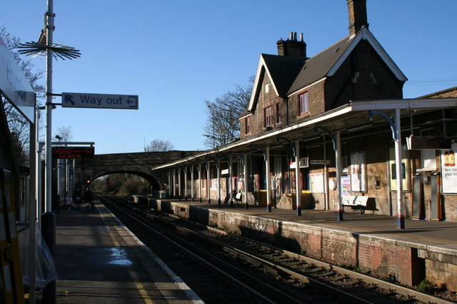 Hounslow railway station looking west